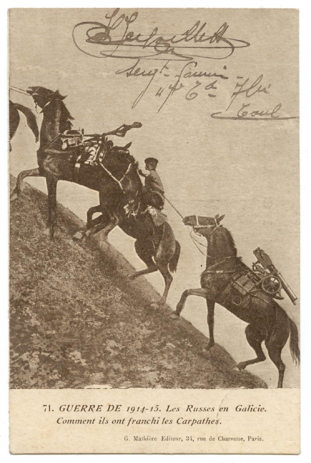 World War I. Eastern Front in Carpathians (1914 or 1915). Russian Imperial Army. Cossacs in the Mountains. French war propaganda Carte Postale of the period.